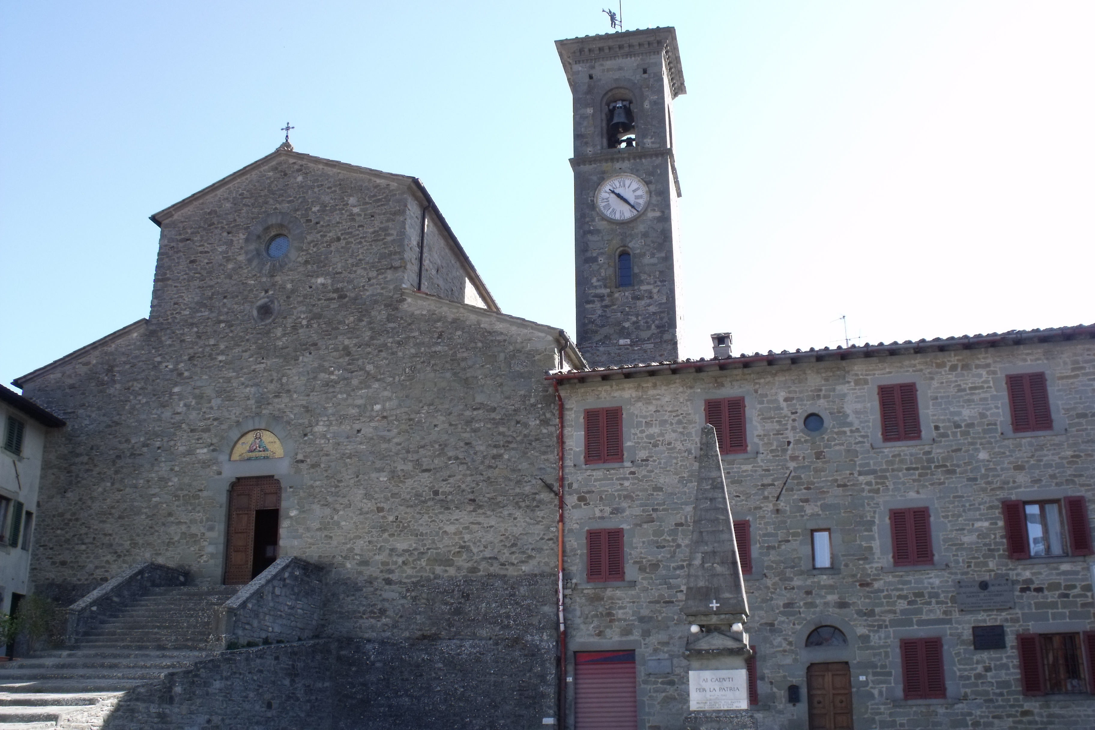 Abbazia San Gaudenio in San Godenzo, Province of Florence, Tuscany, Italy